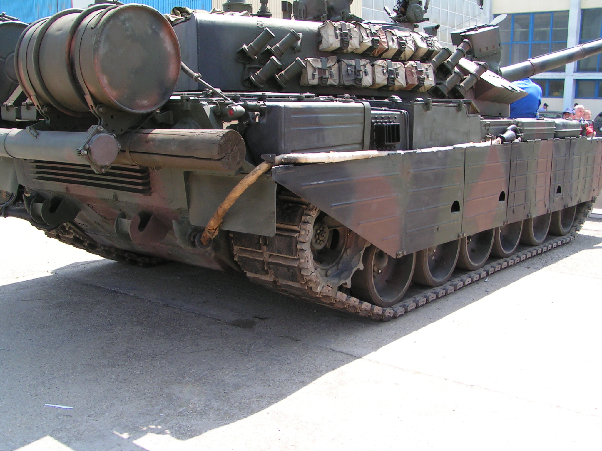 Photo of a Romanian TR-85 main battle tank on the Black Sea Defense & Aerospace 2007 in Bucharest, Romania.